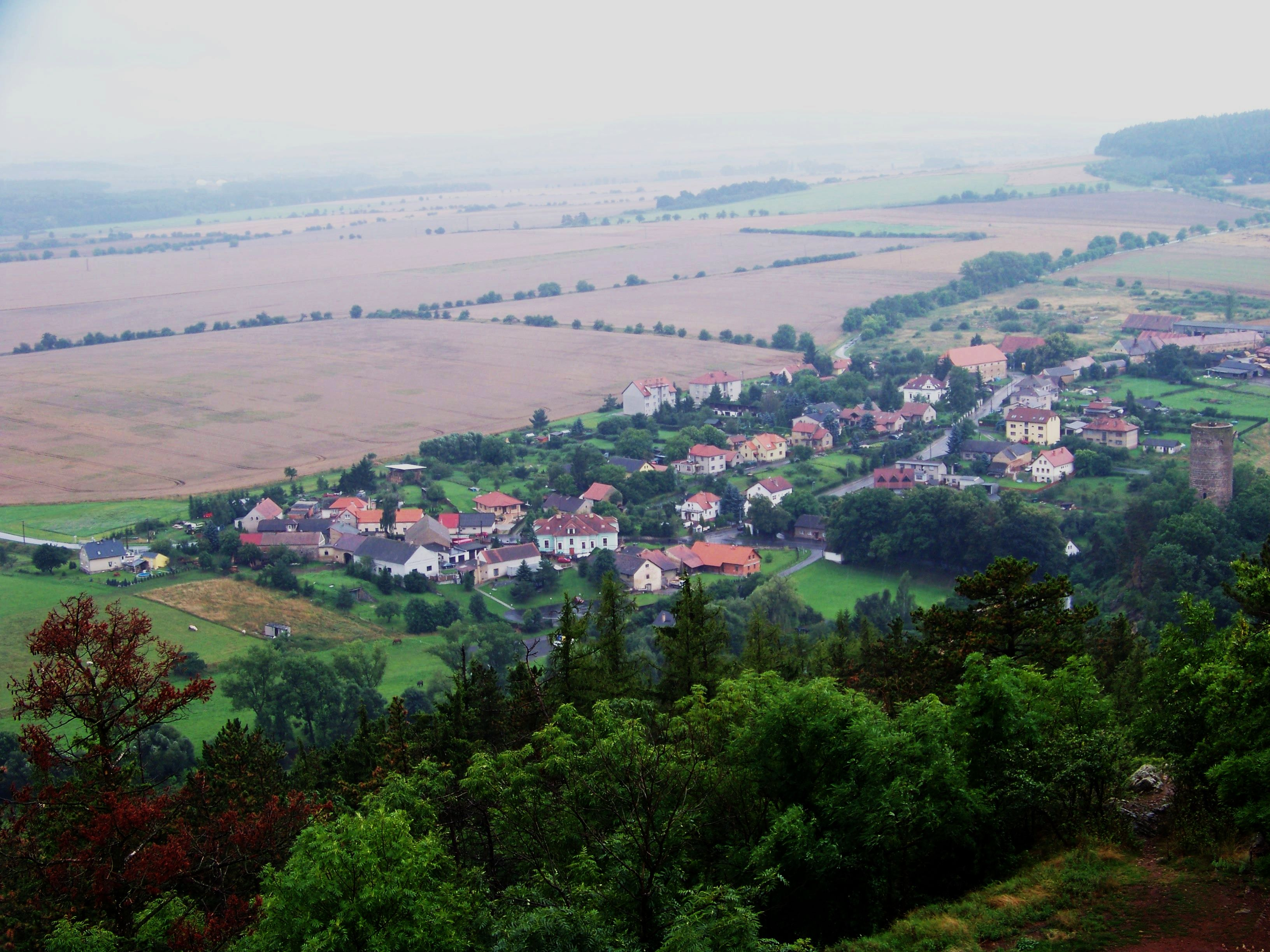 Beroun District, Central Bohemian Region, the Czech Republic. A view of Točník village from Točník castle.